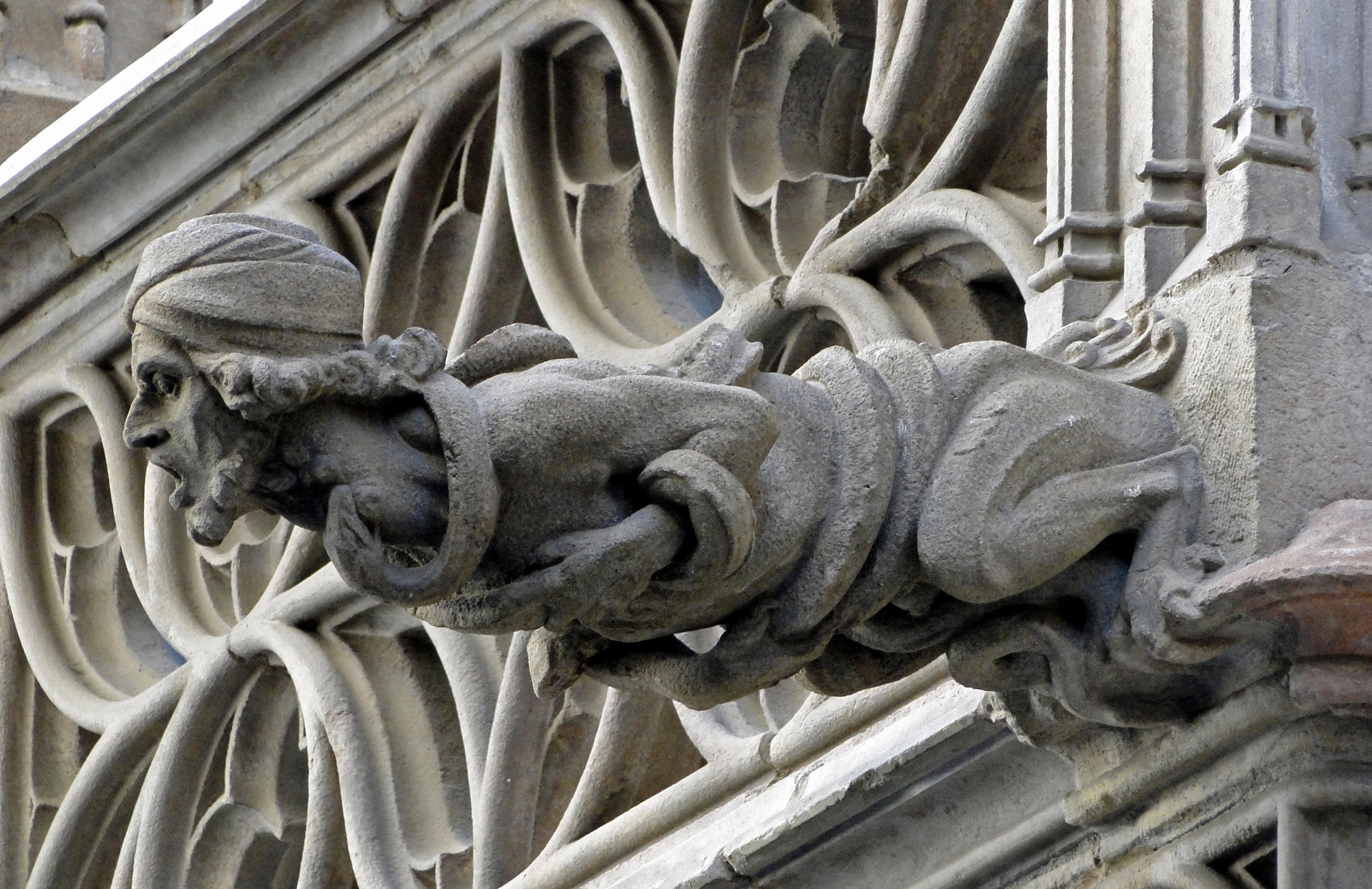 Gargoyle on Palau de la Generalitat de Catalunya, Barcelona, Spain